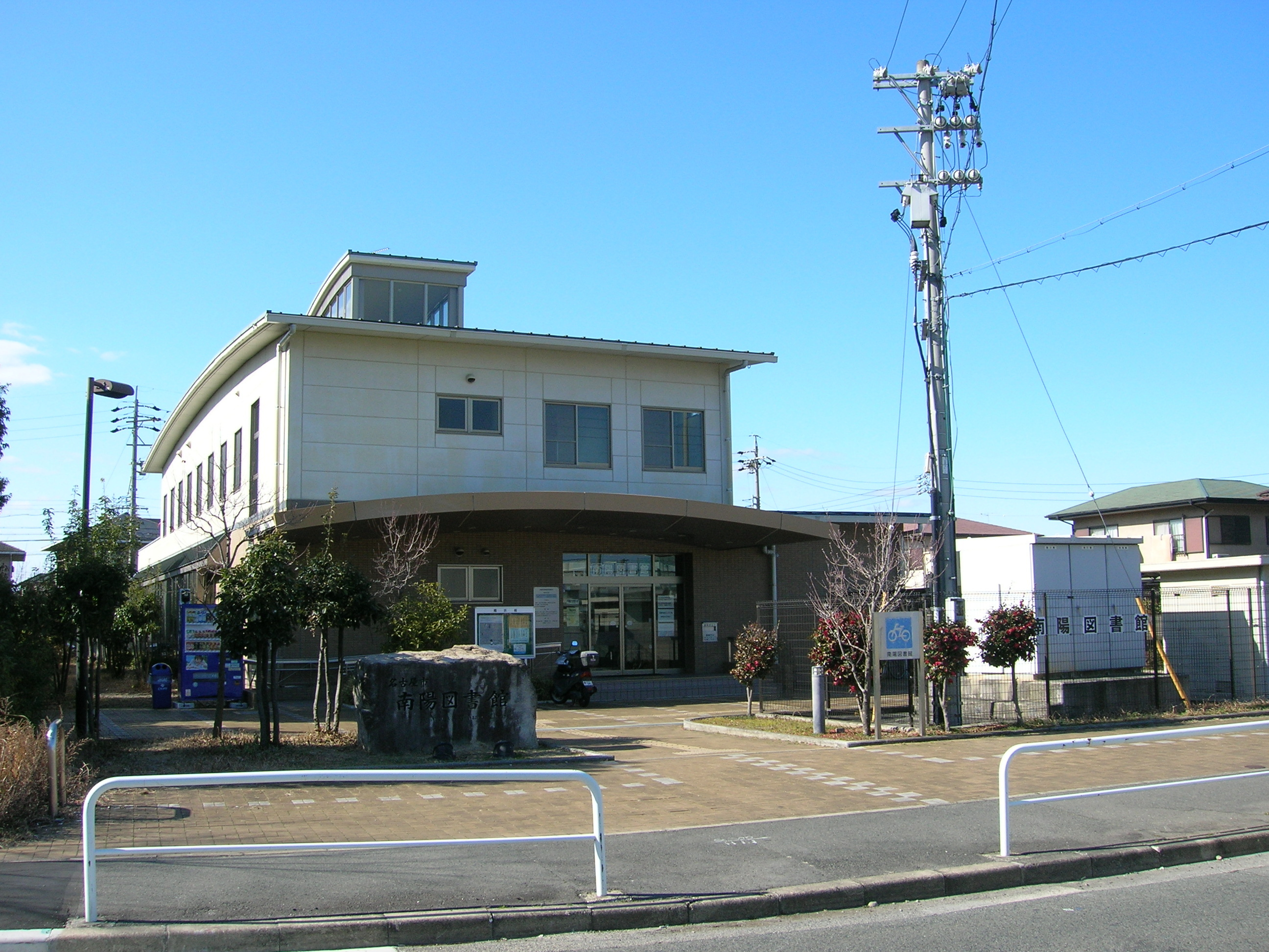 Nagoya City Nanyō library. Loc: Minato-ku, Nagoya city, Aichi Prefecture, Japan.